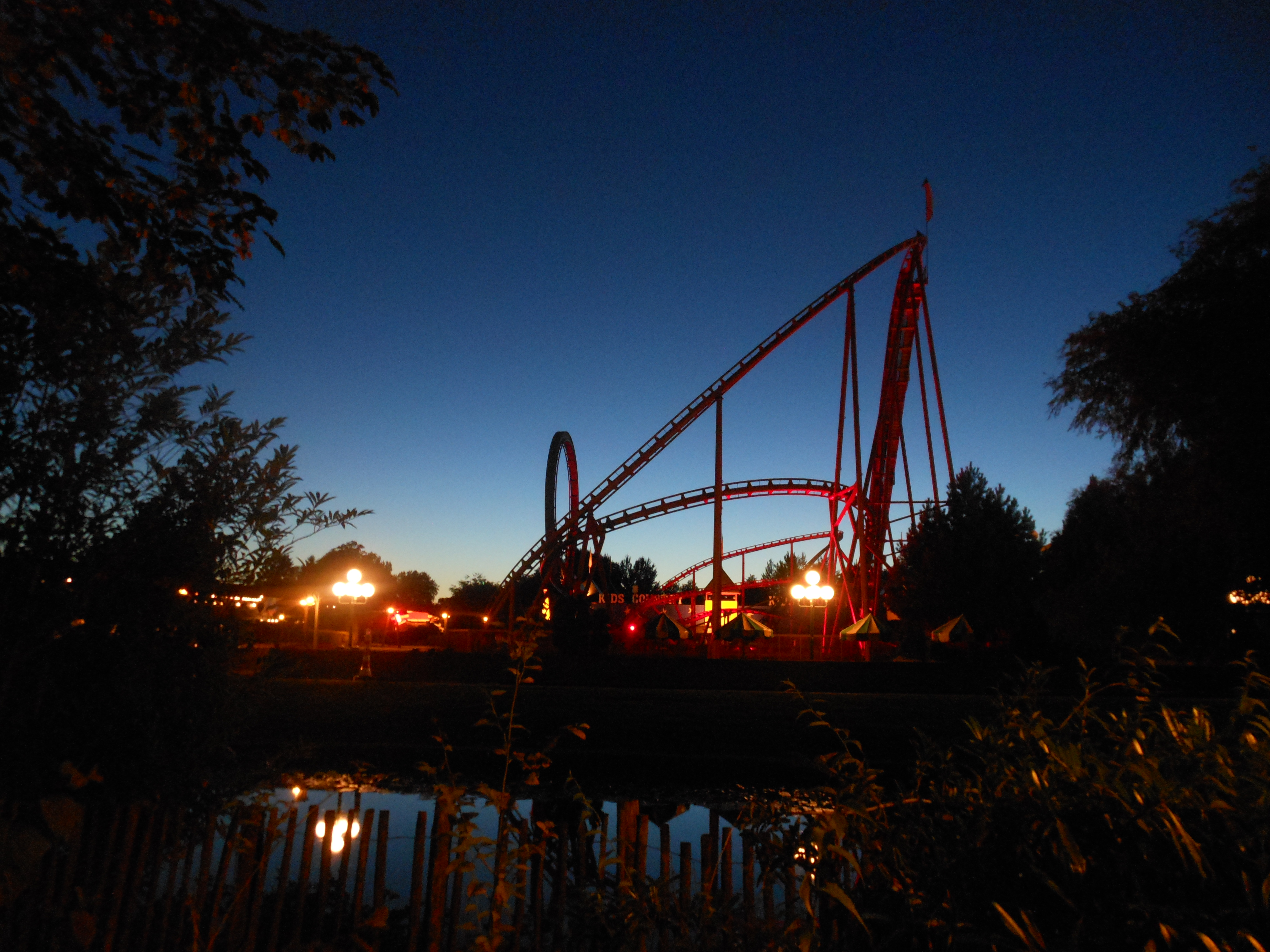 Thunder Loop by night at the Dutch theme park & resort Attractiepark Slagharen, a Looping Star coaster from Schwarzkopf, the first ever inverting coaster of Holland, in it's last year.